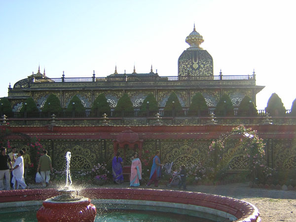 A side view of Prabhupada's Palace of Gold at New Vrindaban community near Moundsville, West Virginia, on June 9, 2007.